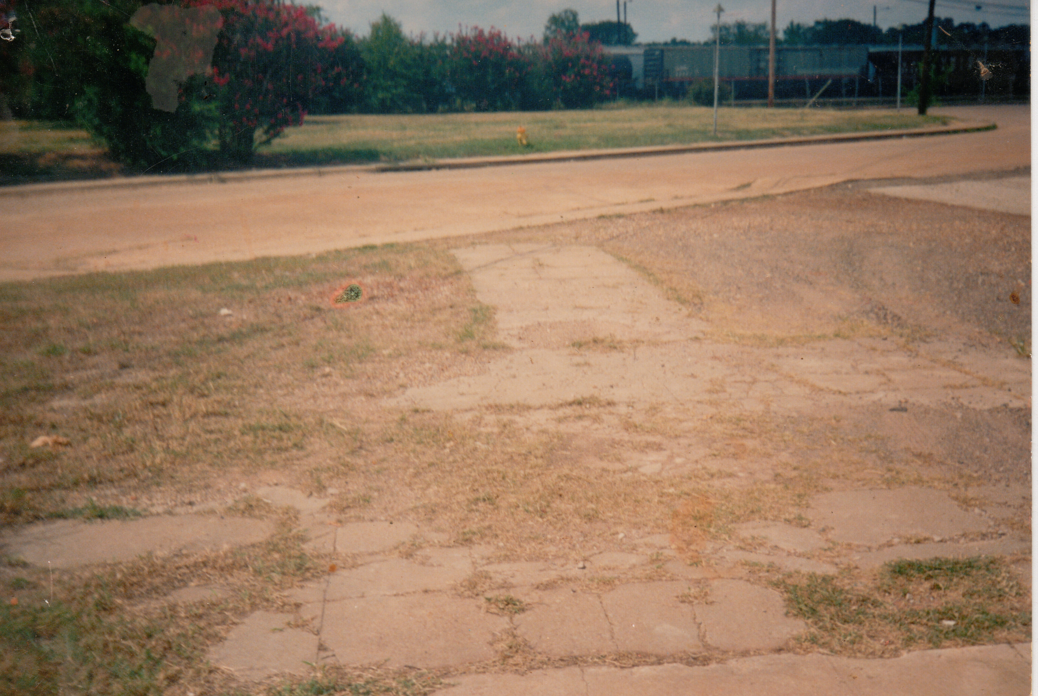 Remains of the foundation that once stood the grand Mobberly Hotel in Longview, Texas. This spot was the entrance to the lobby.